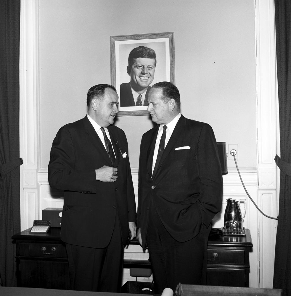 Swearing-in ceremony, Richard W. Reuter, Director, Food for Peace. Please credit "Robert Knudsen. White House Photographs. John F. Kennedy Presidential Library and Museum, Boston"